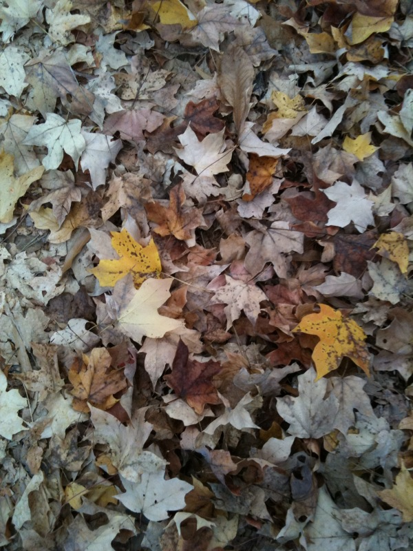 A pile of Southern Fall leaves